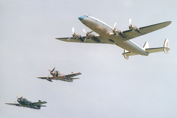 A Constellation flying in formation at La Ferté Alais airshow 2004. This photograph was taken at the La Ferté Alais airshow 2004 by Pete Harlow. It shows a Constellation flying in formation with two other as yet unidentified aircraft. The photograph was taken with a Fujica ST605 camera with Paragon 400mm telephoto lens on Fujica 800 ASA colour negative stock. (1/700 at f22) The photographer was located in a field in the valley to the east of the airfield.